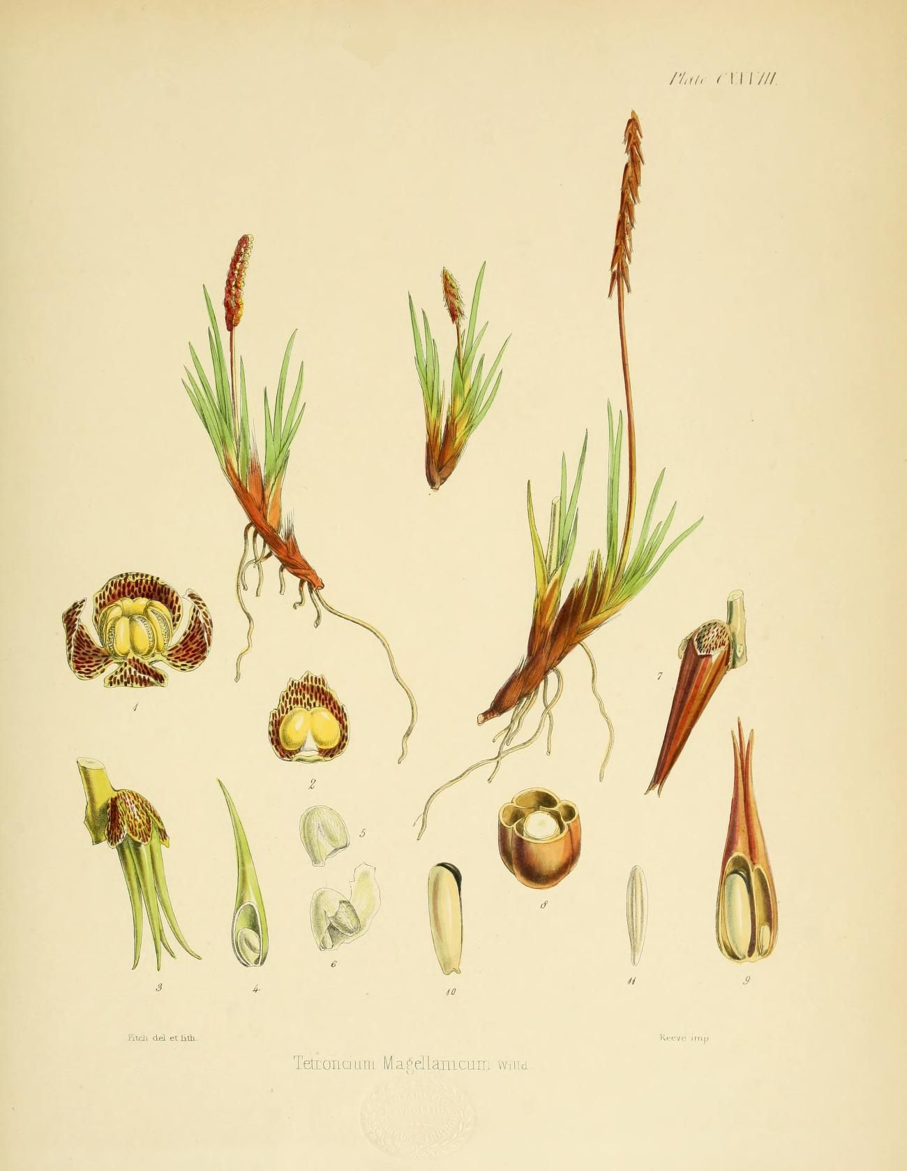 jpg of Plate CXXXVIII of Hooker's Flora Antarctica. Tetroncium magellanicum Willd.